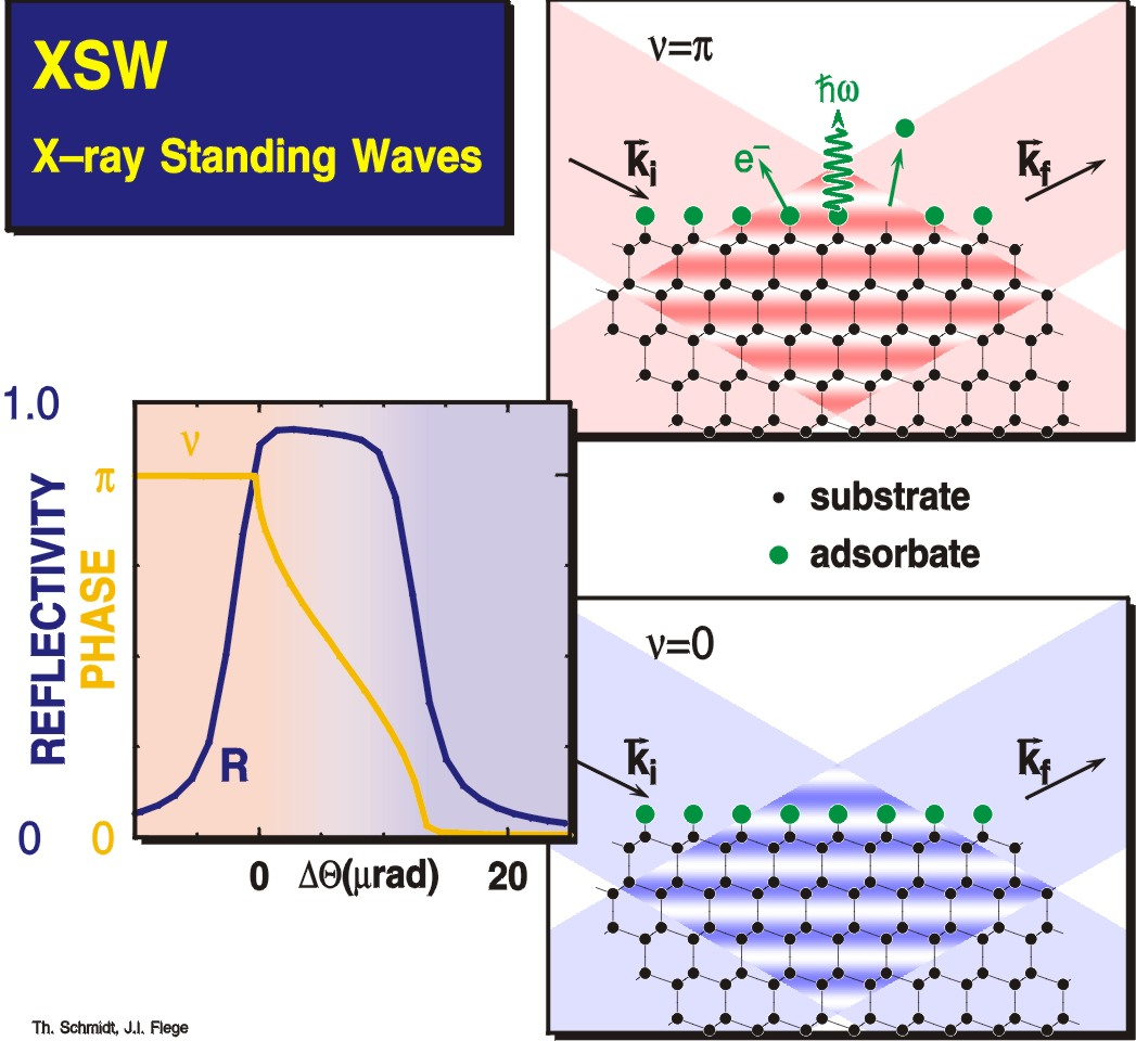 Principle of X-ray standing wave measuremnts